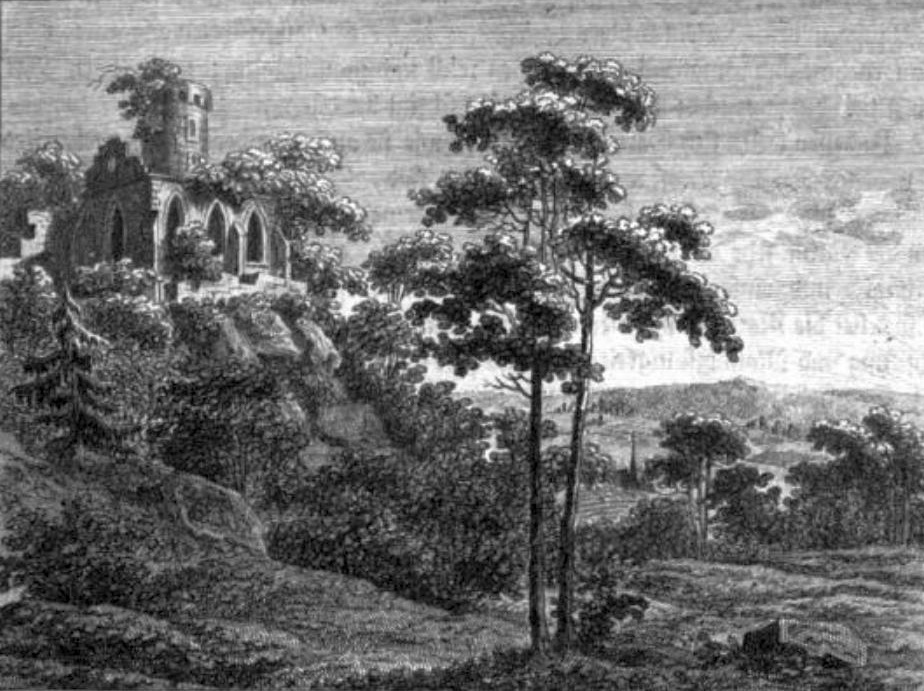 Artificial ruin according to Christian Friedrich Schuricht